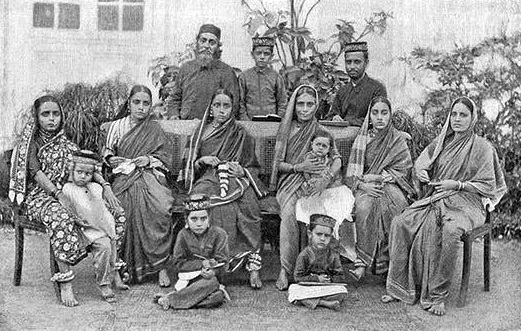 Beni-Israel Family at Bombay. End of the XIXth century, or begining of the XXth century.